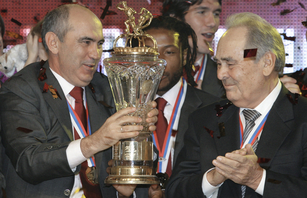 “Kurban Berdyev and Mintimer Shaymiev during FC Rubin award ceremony”. FC Rubin Kazan head coach Kurban Berdyev and Tatarstan President Mentimer Shaymiyev with the with the Russian Premier League Champions Cup during the ceremony of awarding FC Rubin with the Russian Premier League gold medals. The event was held at the Korston Hotel and Entertainment Complex.